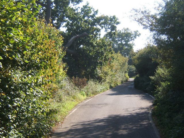 Bobbits Lane between hedges and trees A very minor lane.